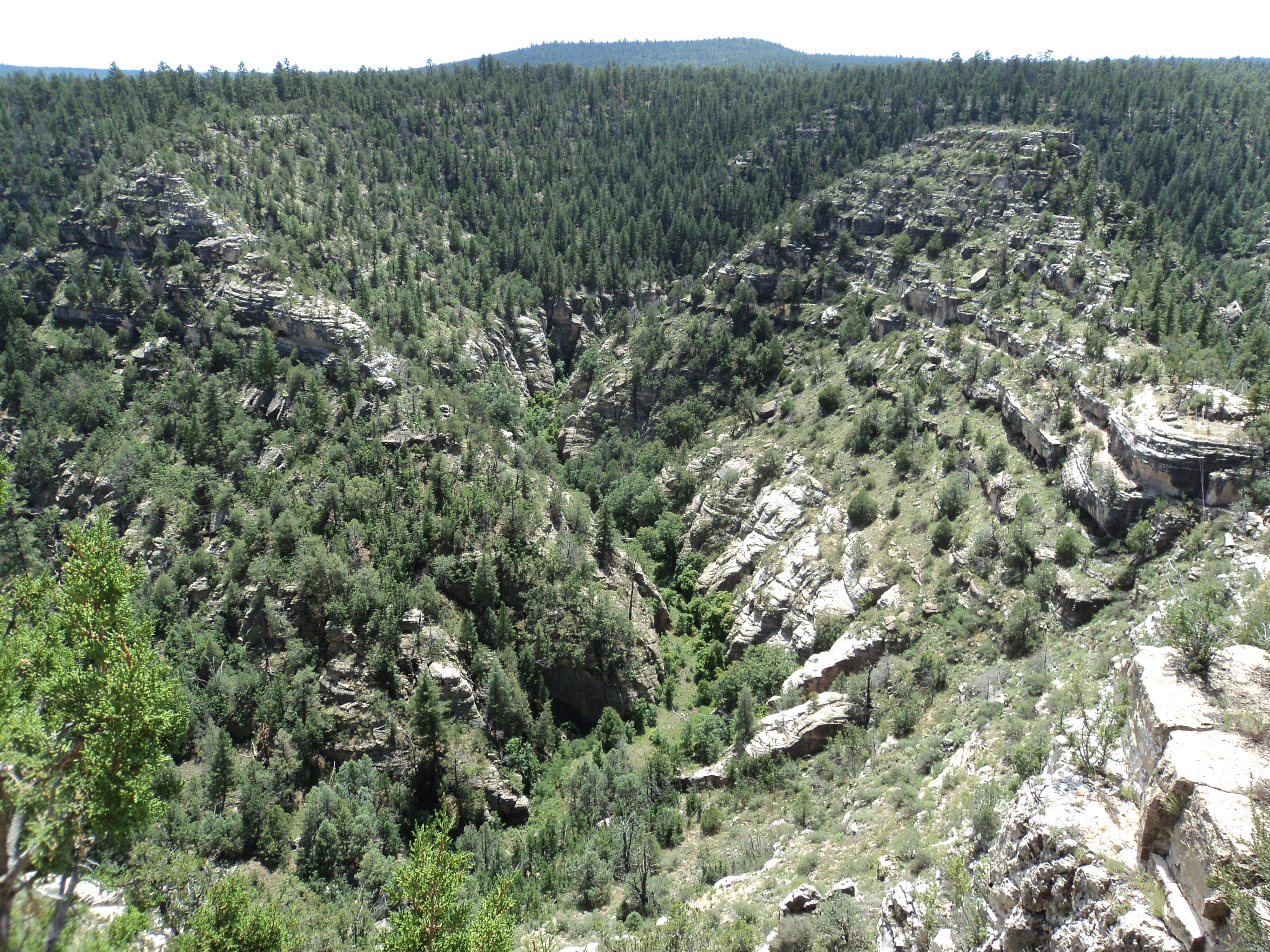 Walnut Canyon National Monument, 8 miles (13 km) east of Flagstaff off Old U.S. Route 66 Flagstaff